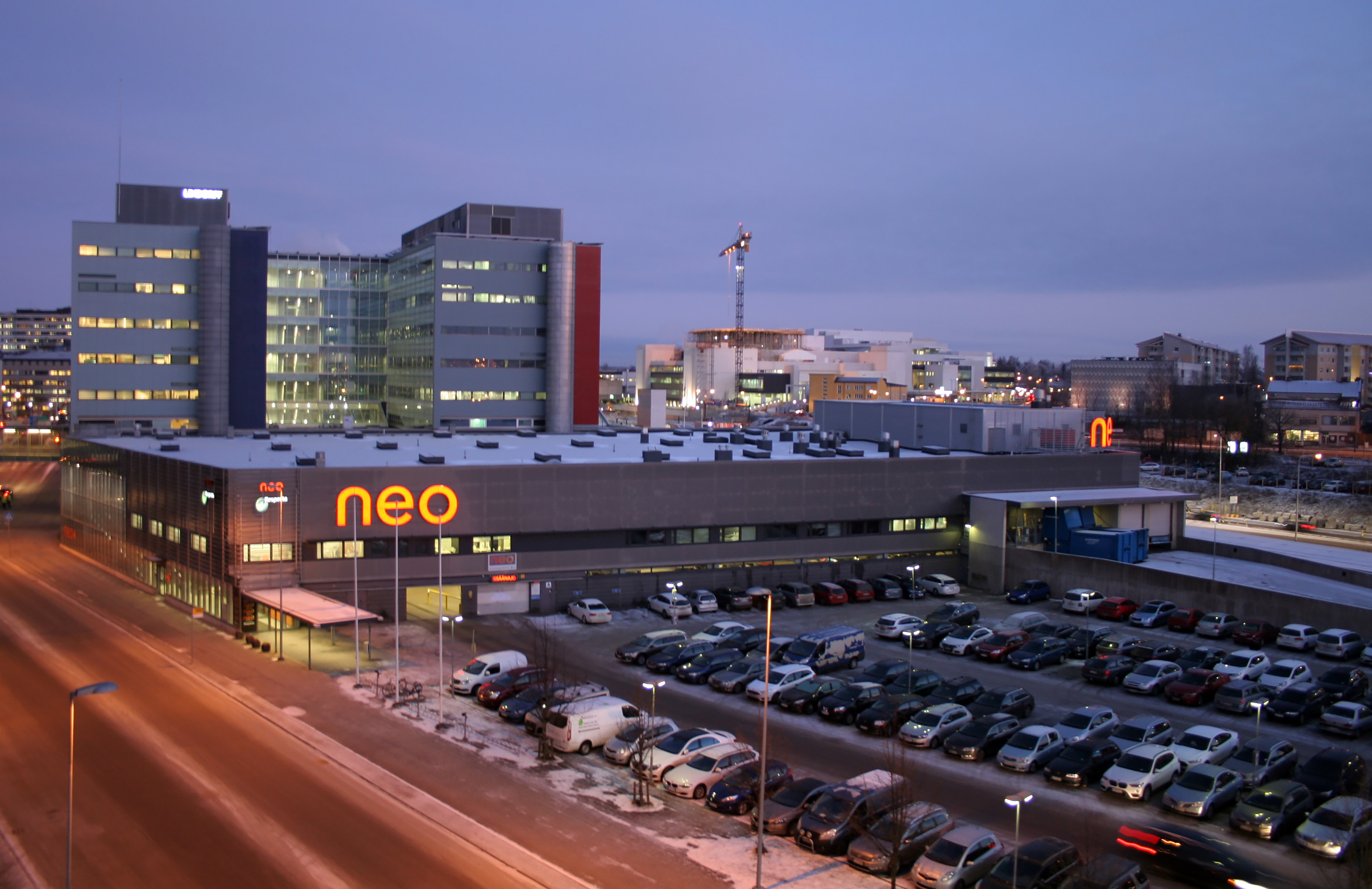 Kupittaa Turku NEO